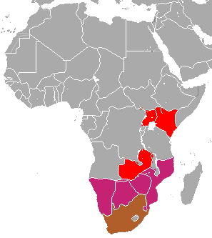 White rhino range map (native and introduced)